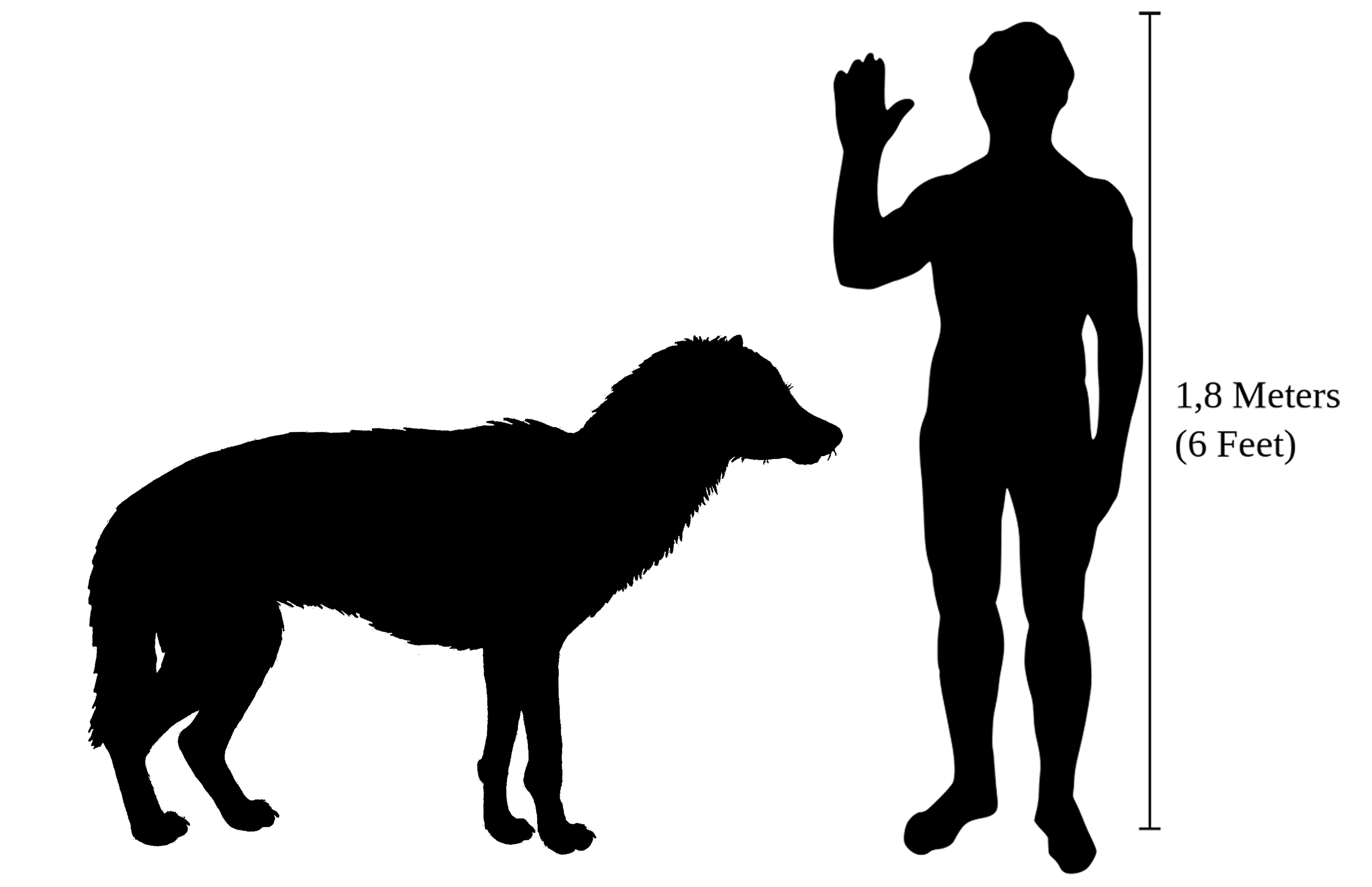 Size of a Beringian wolf compared to a human. Based on measurements given in Mech, L. David (1966). The Wolves of Isle Royale. Fauna Series 7. Fauna of the National Parks of the United States